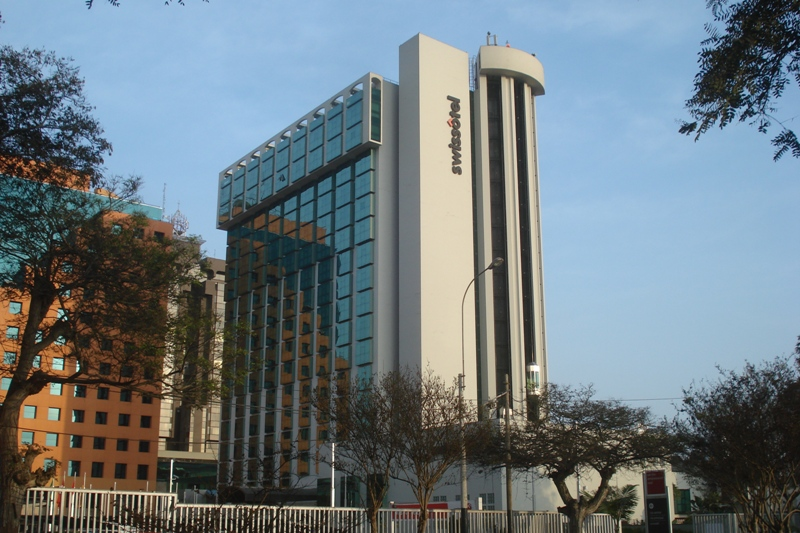 View of Swissôtel in San Isidro (Lima, Peru)